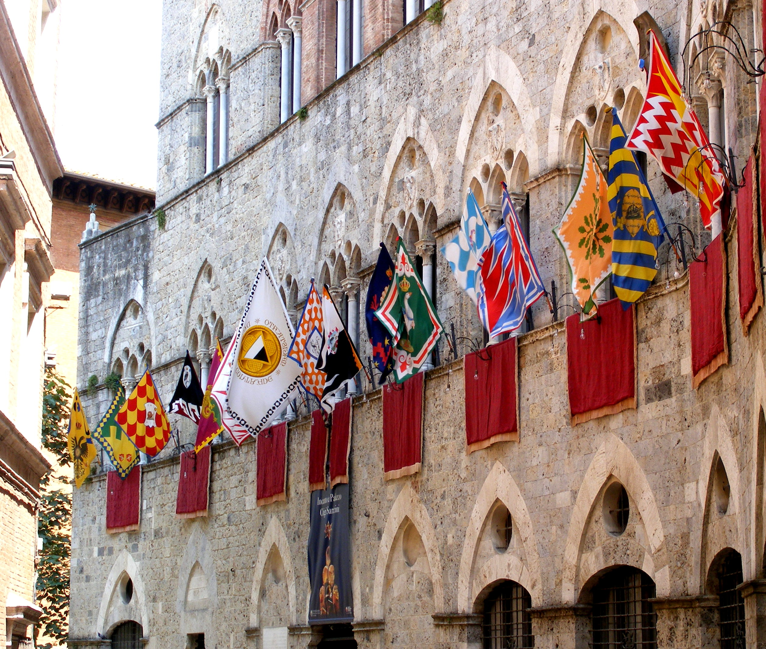 Siena, Italy: Palazzo Chigi-Saracini with the flags of the Siena contrade (from left to right): Aquila, Bruco, Chiocciola, Civetta, Drago, Giraffa, (general flag), Leocorno, Lupa, Nicchio, Oca, Onda, Pantera, Selva, Tartuca, Valdimontone (Istrice is missing)